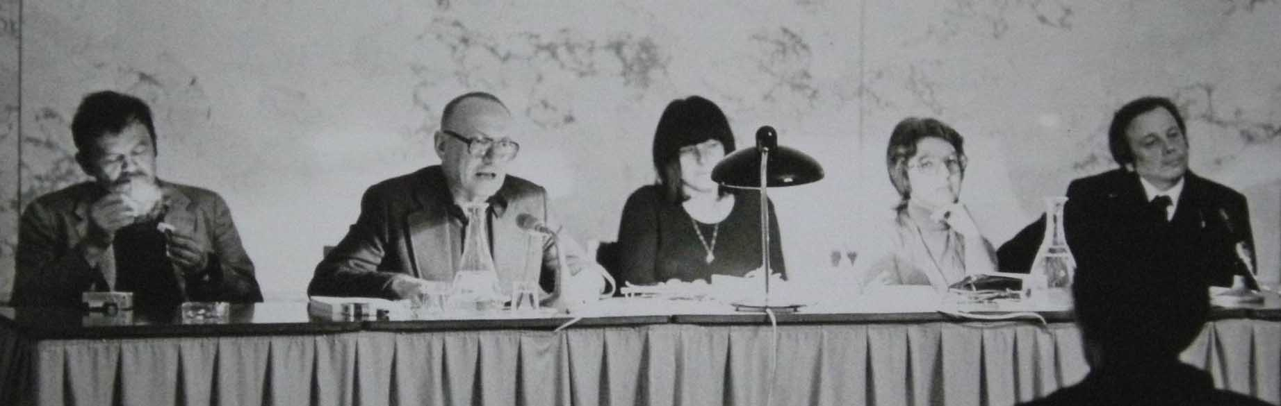 Some public reading during 'Buchwoche' ('Week of the Book') 1974, Hofburg, Vienna, Austria. From left: Sculptor Alfred Hrdlicka; writers Ernst Jandl, Friederike Mayröcker, Barbare Frischmuth, +?. This (however poor, but unique) photograph was taken in November 1974, during the week after 1974-11-21 (H.C. Artmann's Grand Austrian State Prize for literature. Frischmuth, BTW, also appears on File:H.C. Artmann 19741121b.jpg -- bottom, left corner ;))